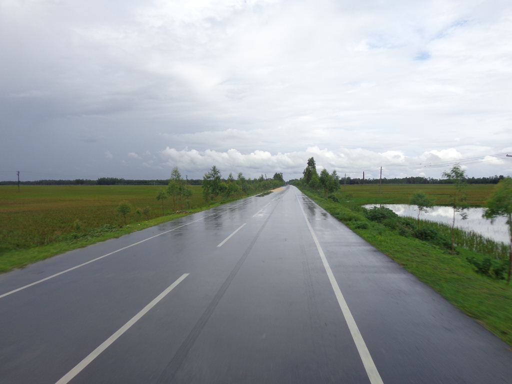 place dinajpur highway.